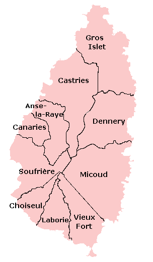 Map of the Quarters of Saint Lucia. Created using the GIMP; Made by User:Acntx.